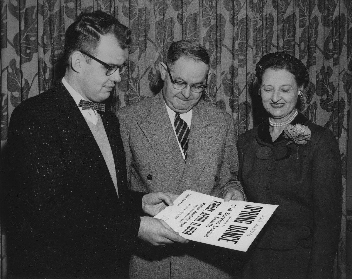 Seattle Civil Service League officials with poster for spring dance, 1958. President David Levine (center) with Treasurer Ben Merrill and Mrs. Merrill. Levine was, at this time, approaching the end of his long service on the city council. Item 171426, Comptroller Scrapbooks (Record Series 1800-06), Seattle Municipal Archives.